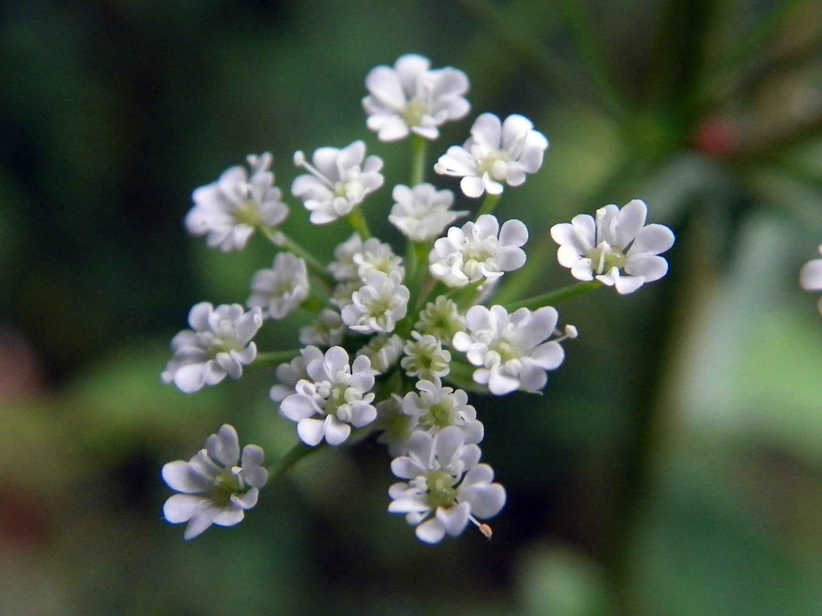 Rough Chervil (Chaerophyllum temulum). Fairlands Valley Park, Stevenage, 17 May 2011.